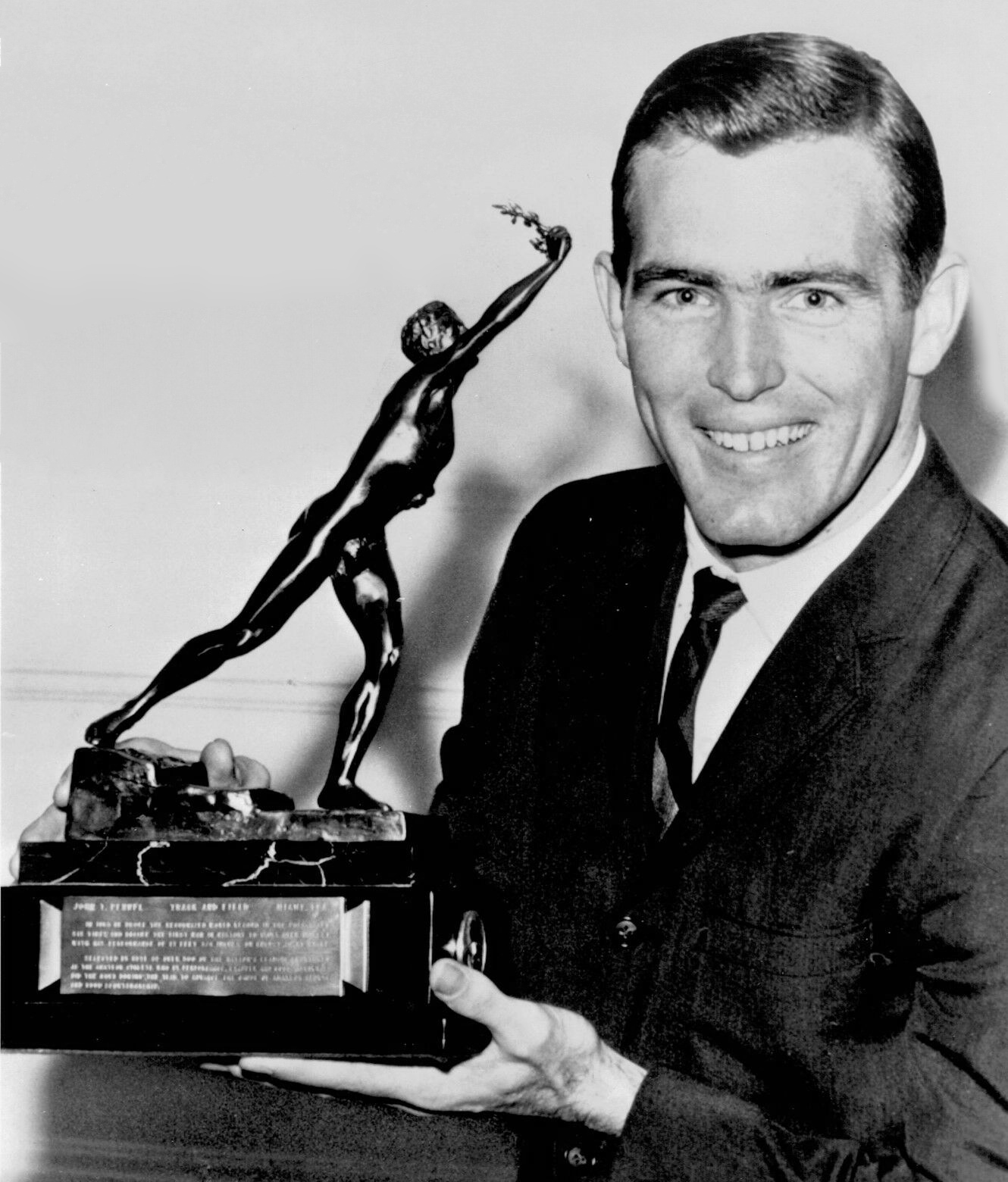 1964 Wire Photo pole vaulter John Pennel holds James Sullivan Award in New York